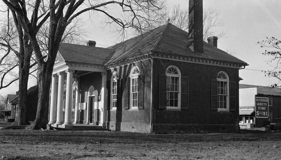 Gloucester County Courthouse, U.S. Route 17, Gloucester (Gloucester County, Virginia) cropped This file comes from the Historic American Buildings Survey (HABS), Historic American Engineering Record (HAER) or Historic American Landscapes Survey (HALS). These are programs of the National Park Service established for the purpose of documenting historic places. Records consist of measured drawings, archival photographs, and written reports. When reusing please credit: Library of Congress, Prints & Photographs Division, VA,37-GLO,2-1 This tag does not indicate the copyright status of the attached work. A normal copyright tag is still required. See Commons:Licensing for more information. This work is in the public domain in the United States because it is a work prepared by an officer or employee of the United States Government as part of that person’s official duties under the terms of Title 17, Chapter 1, Section 105 of the US Code. See Copyright. Note: This only applies to original works of the Federal Government and not to the work of any individual U.S. state, territory, commonwealth, county, municipality, or any other subdivision. This template also does not apply to postage stamp designs published by the United States Postal Service since 1978. (See § 313.6(C)(1) of Compendium of U.S. Copyright Office Practices). It also does not apply to certain US coins; see The US Mint Terms of Use. This file has been identified as being free of known restrictions under copyright law, including all related and neighboring rights.